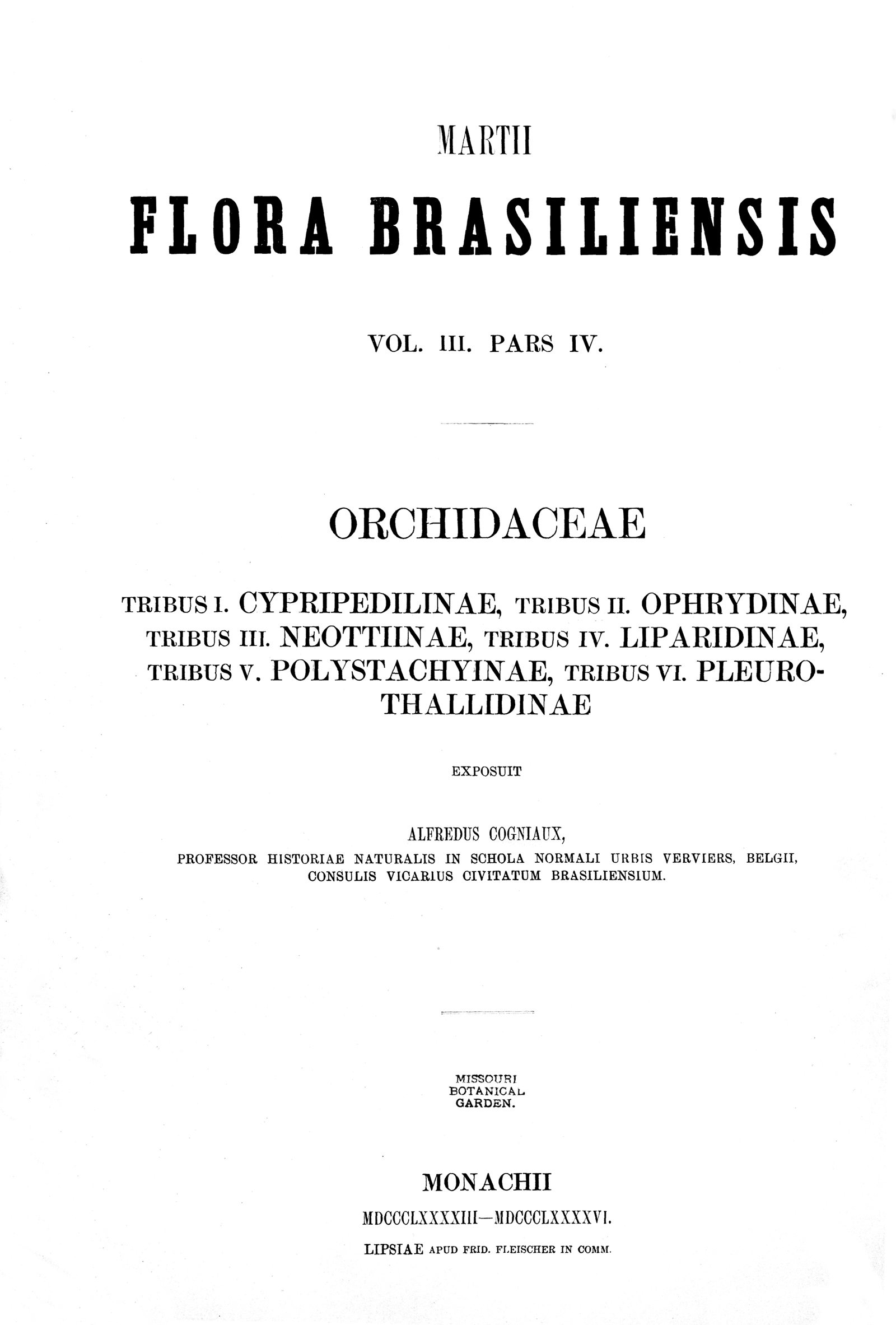 Title page